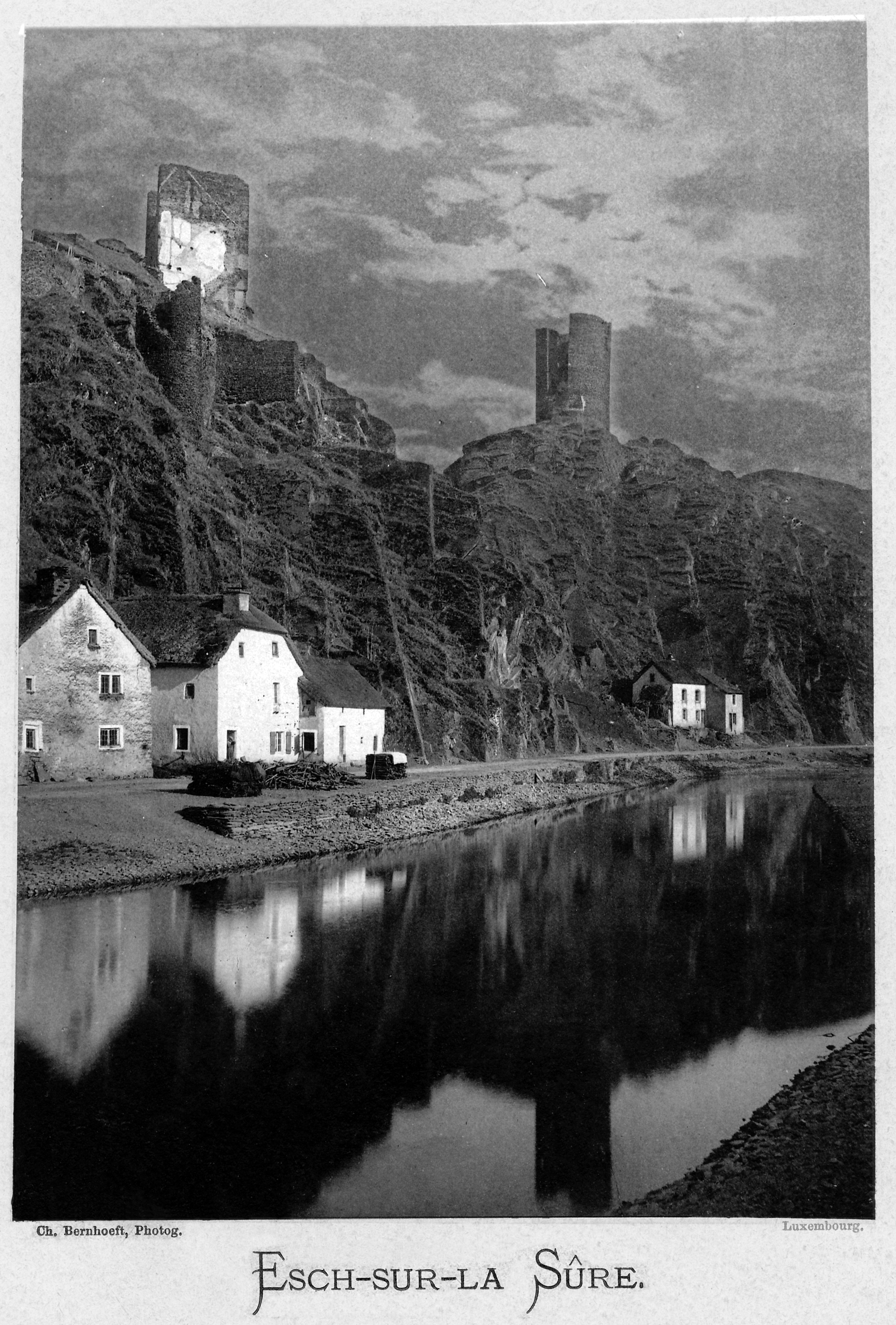 Esch-sur-Sûre, Luxembourg.